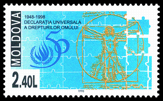 Stamp of Moldova: 50th anniversary of the Universal Declaration of Human Rights